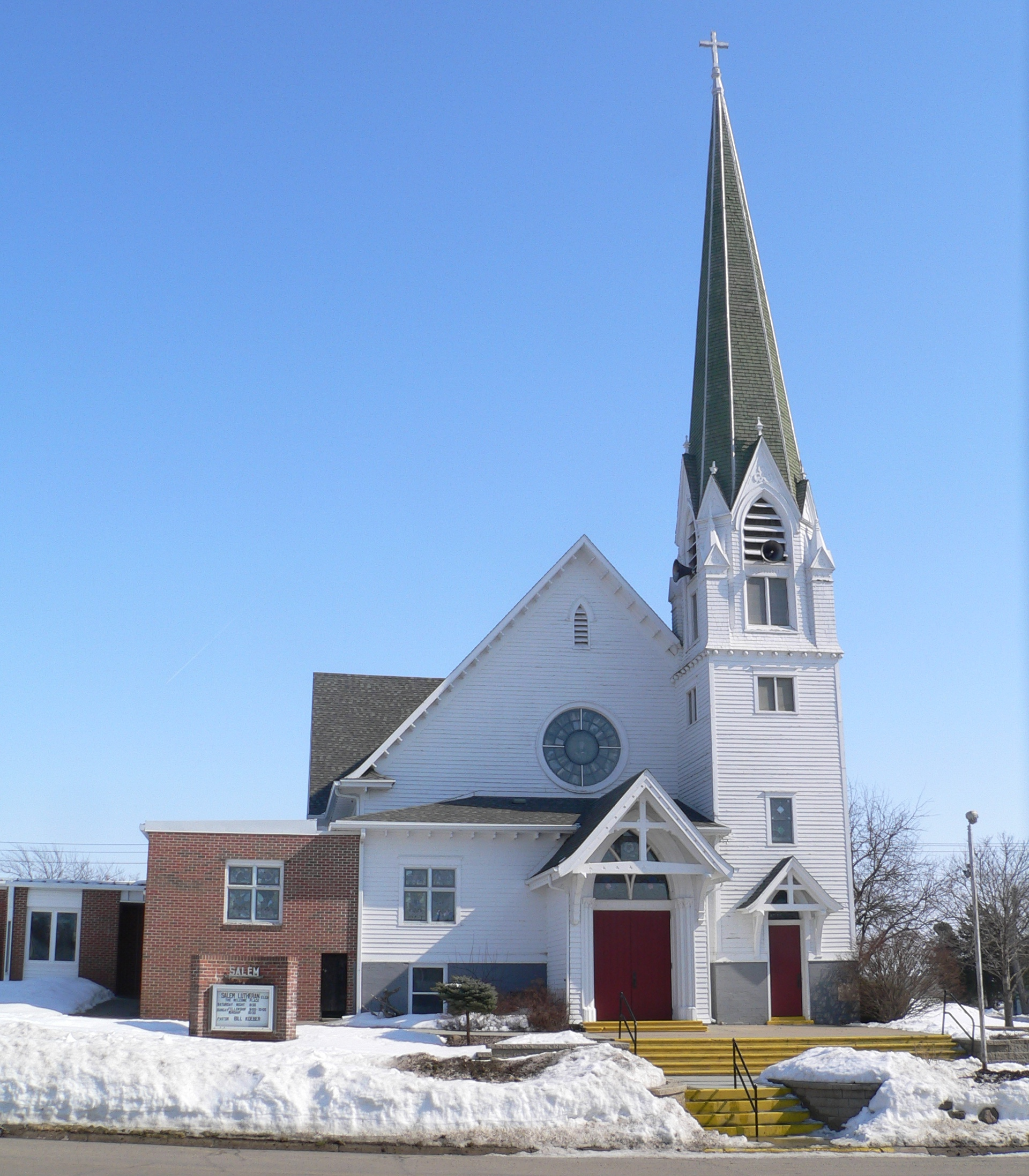 Salem Lutheran Church in Wakefield, Nebraska; seen from the west. The church was built in 1906 in Late Gothic Revival style. It is listed in the National Register of Historic Places.